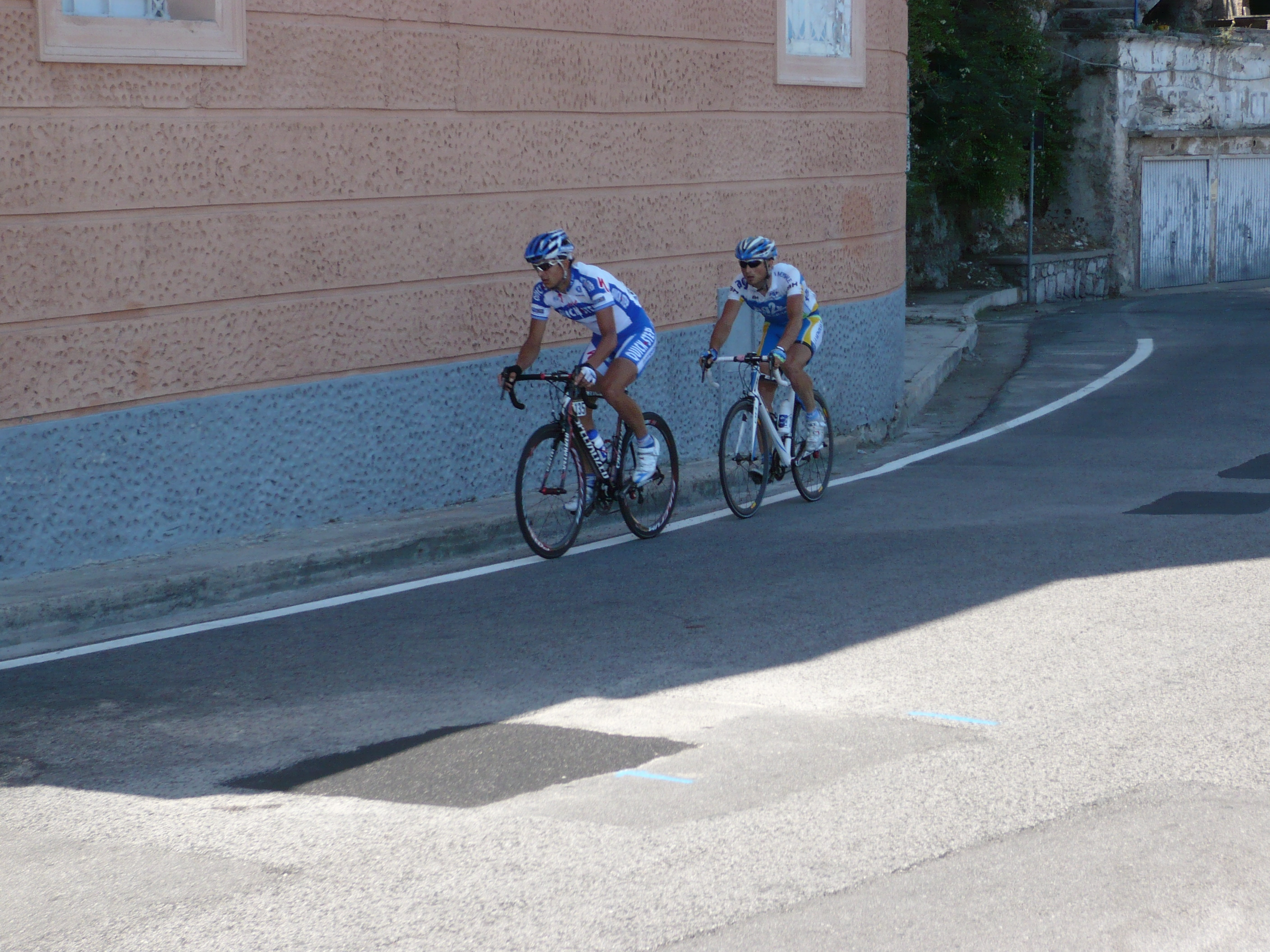 Mauro Facci (on the left) and Yuriy Krivtsov run as fugitives in Amalfi during the 19th stage of the 2009 Giro d'Italia